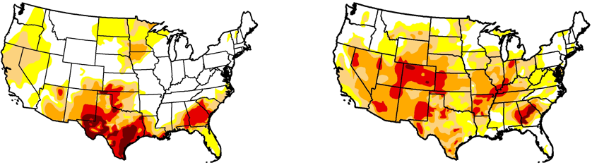 The immense expansion in drought and abnormal dryness in the first half of 2012. (1/3-7/3)